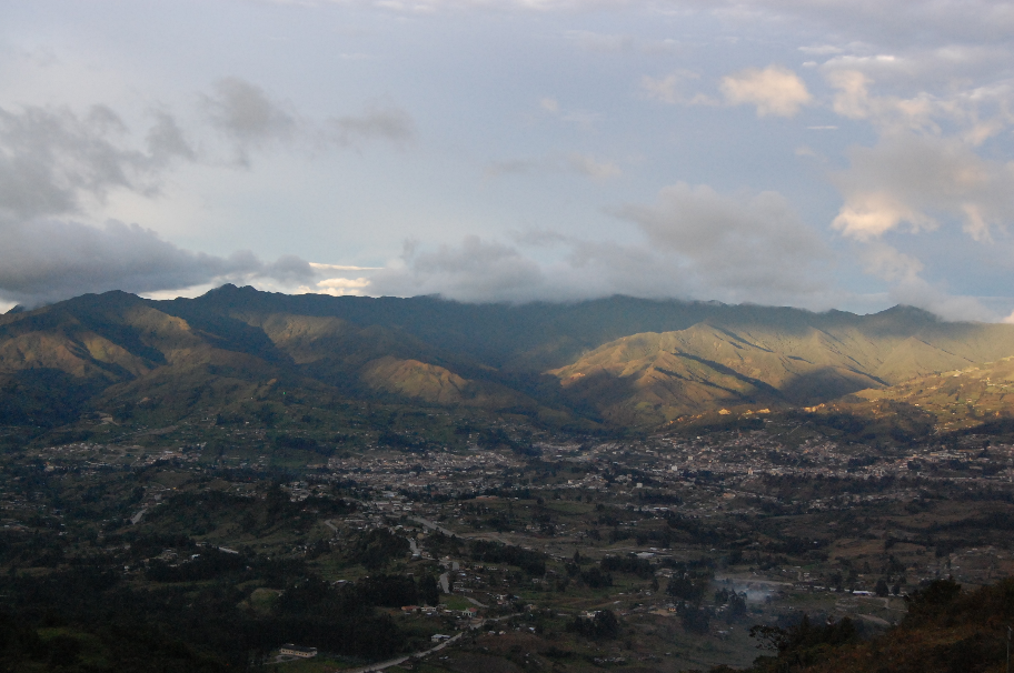 Panoramic view of the city of Loja, southern Ecuador.